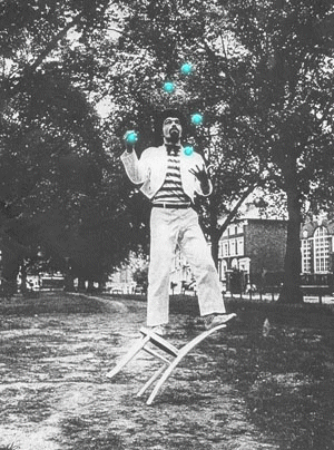 Toby Philpott, Jabba the Hutt puppeteer, juggling.